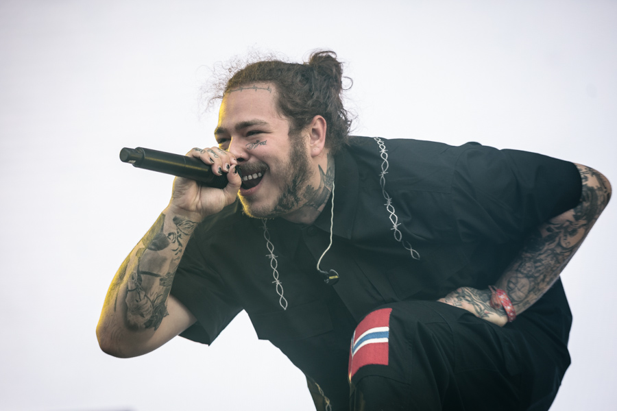 Post Malone at the main stage at Stavernfestivalen. The concert took place on 14. July 2018 in Stavern. Lineup:Post Malone (rap)